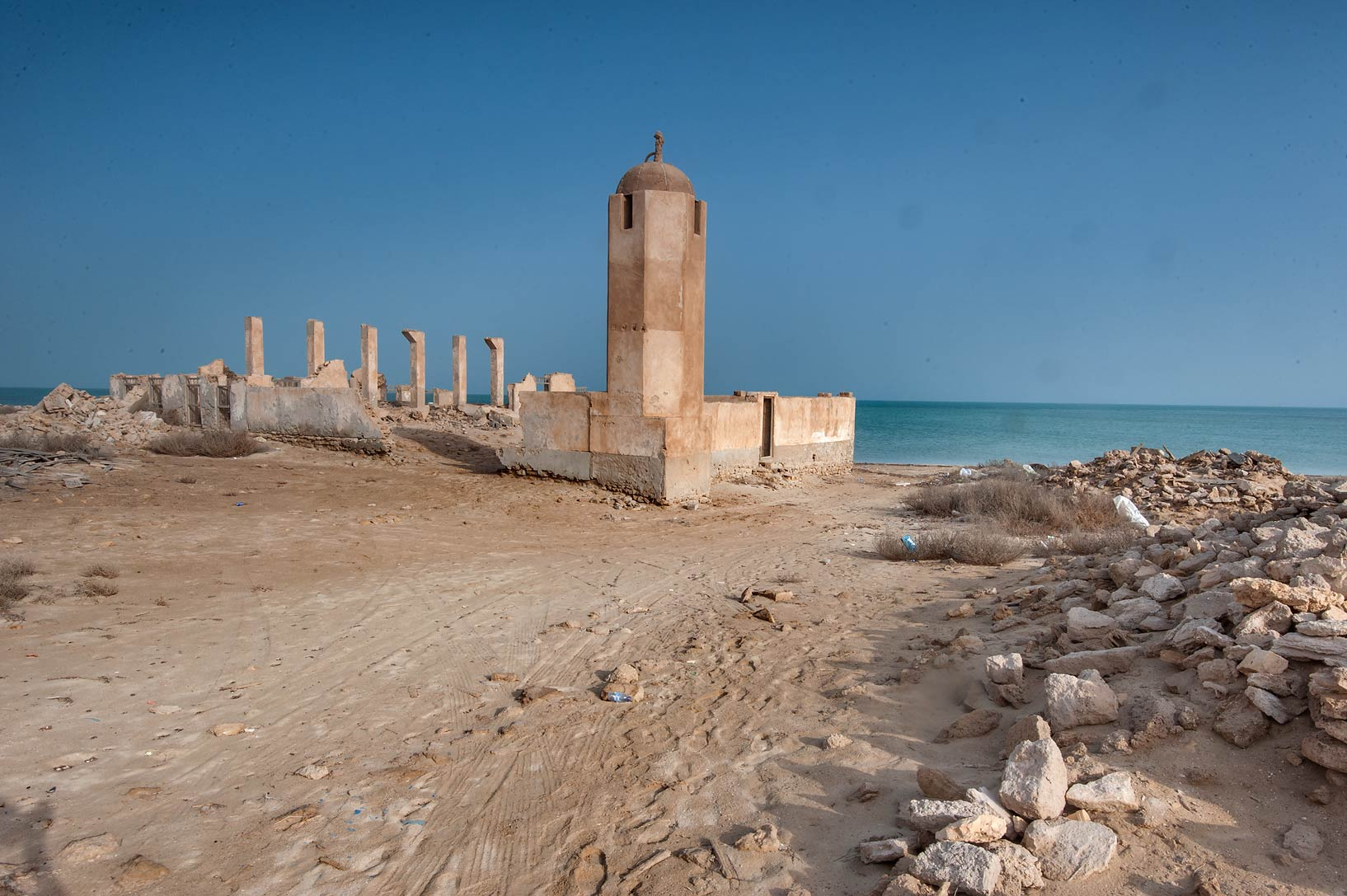 A ruined mosque in Al Khuwair on the northern coast of Qatar.